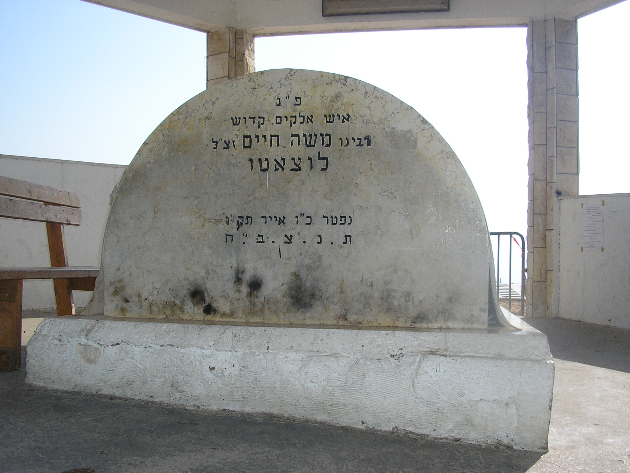 Ramhal tomb